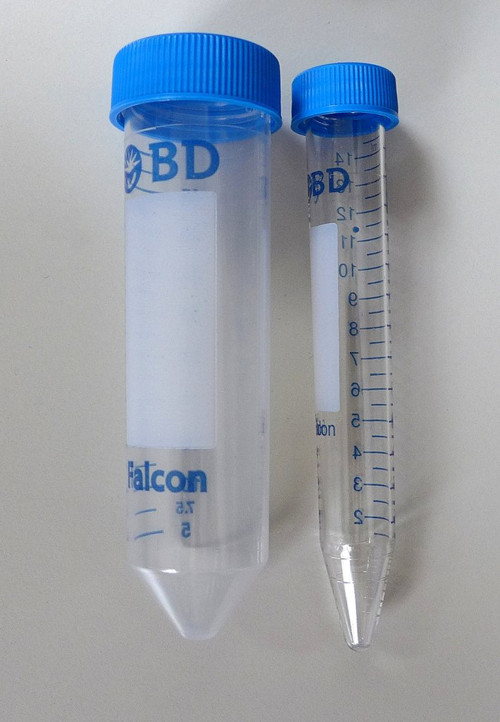 BD Falcon tubes